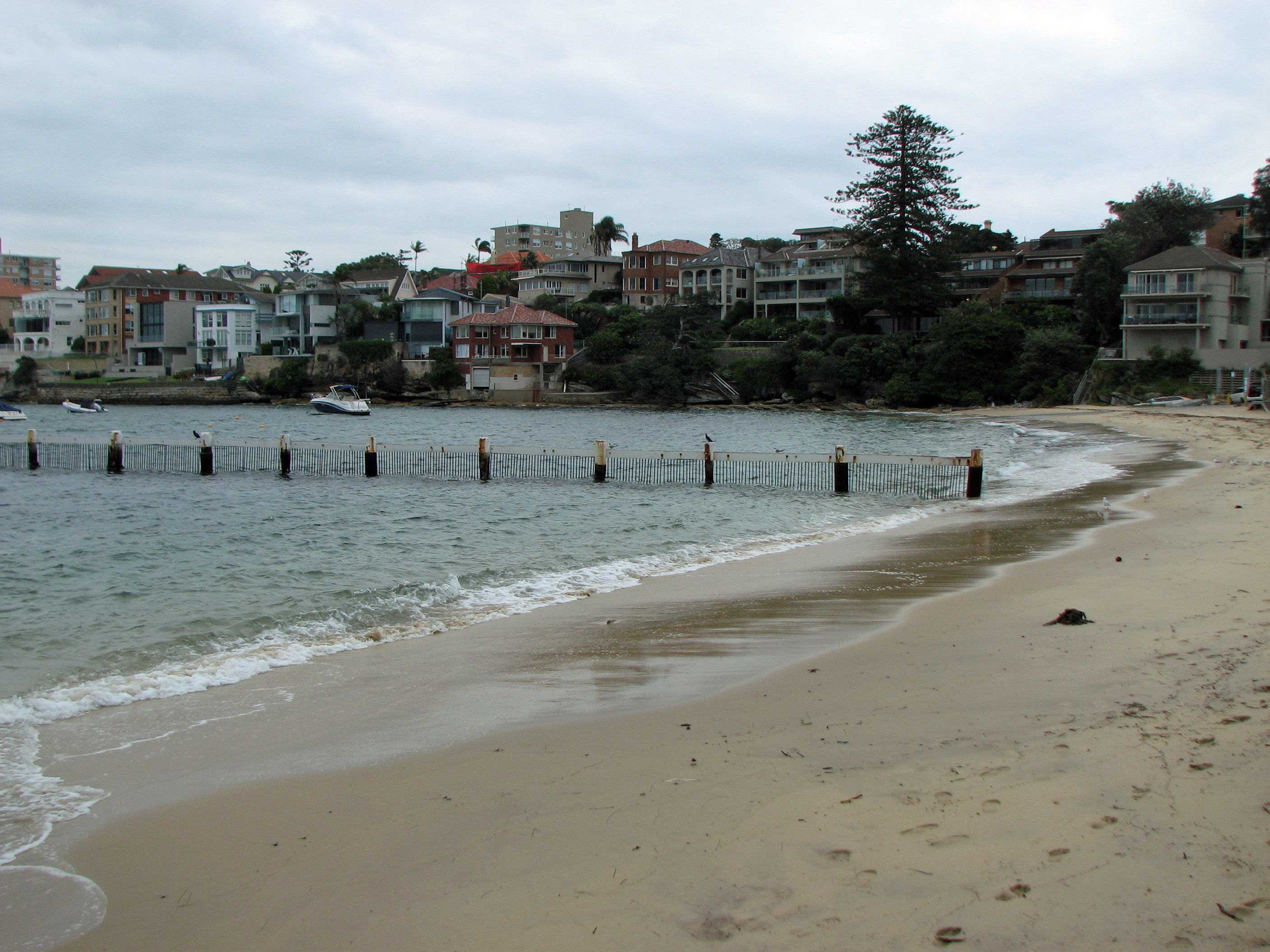 Little Manly Cove, in Sydney Harbour, is adjacent to Manly Cove, separated by Manly Point